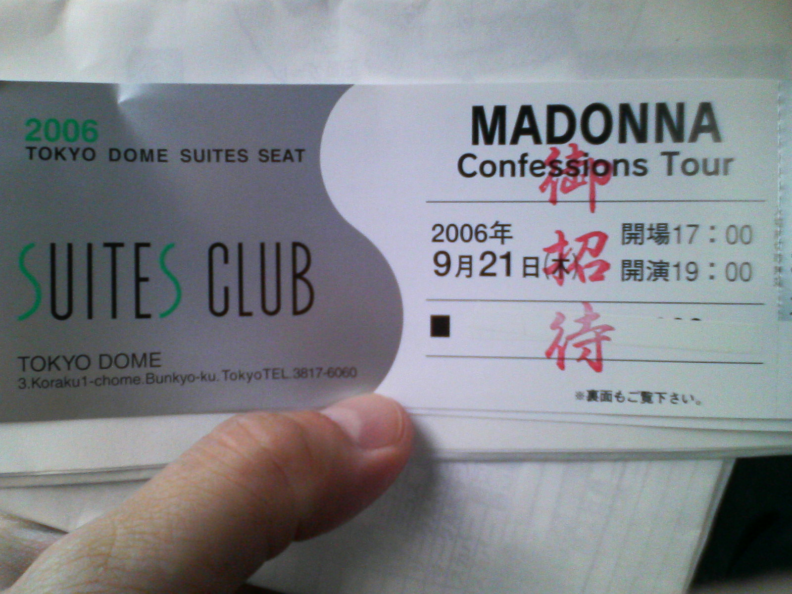 Madonna's ticket for Confession Tour in Tokyo